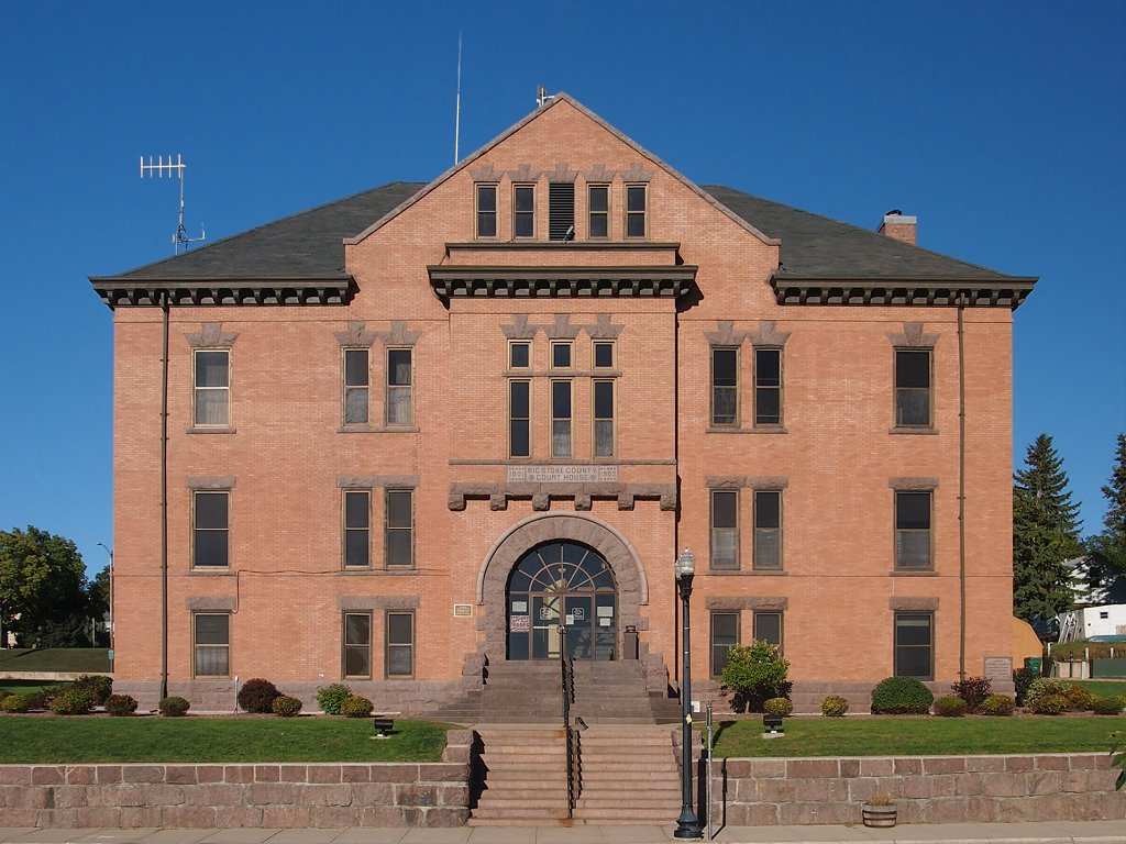 Big Stone County Courthouse, 20 2nd St. SE, Ortonville, Minnesota, USA. Viewed from the southwest atop a stepladder, corrected for tilt distortion.